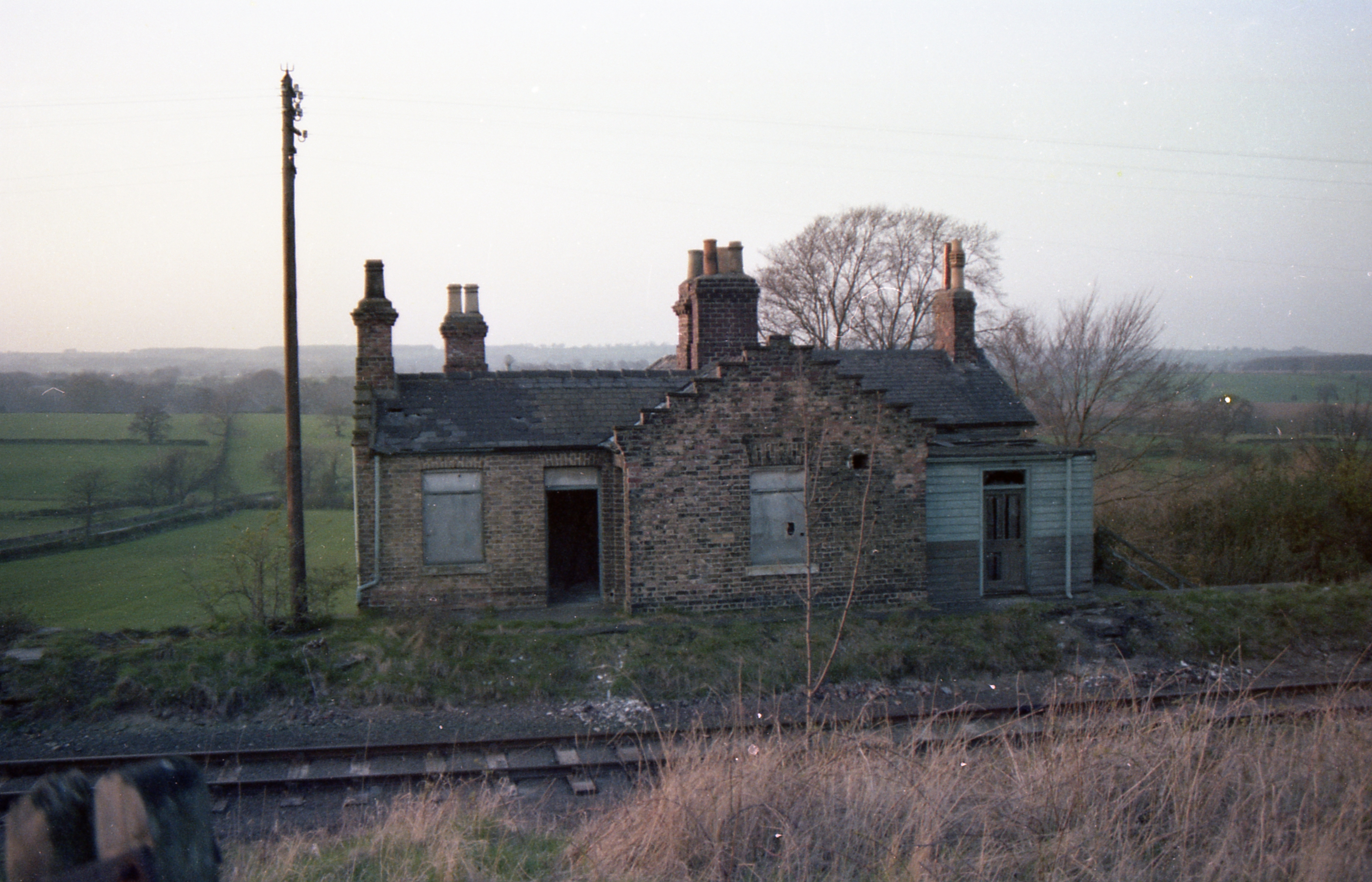 Constable Burton railway station in approx. 1980. The station was derelict at this time; the booking office woodwork was intact